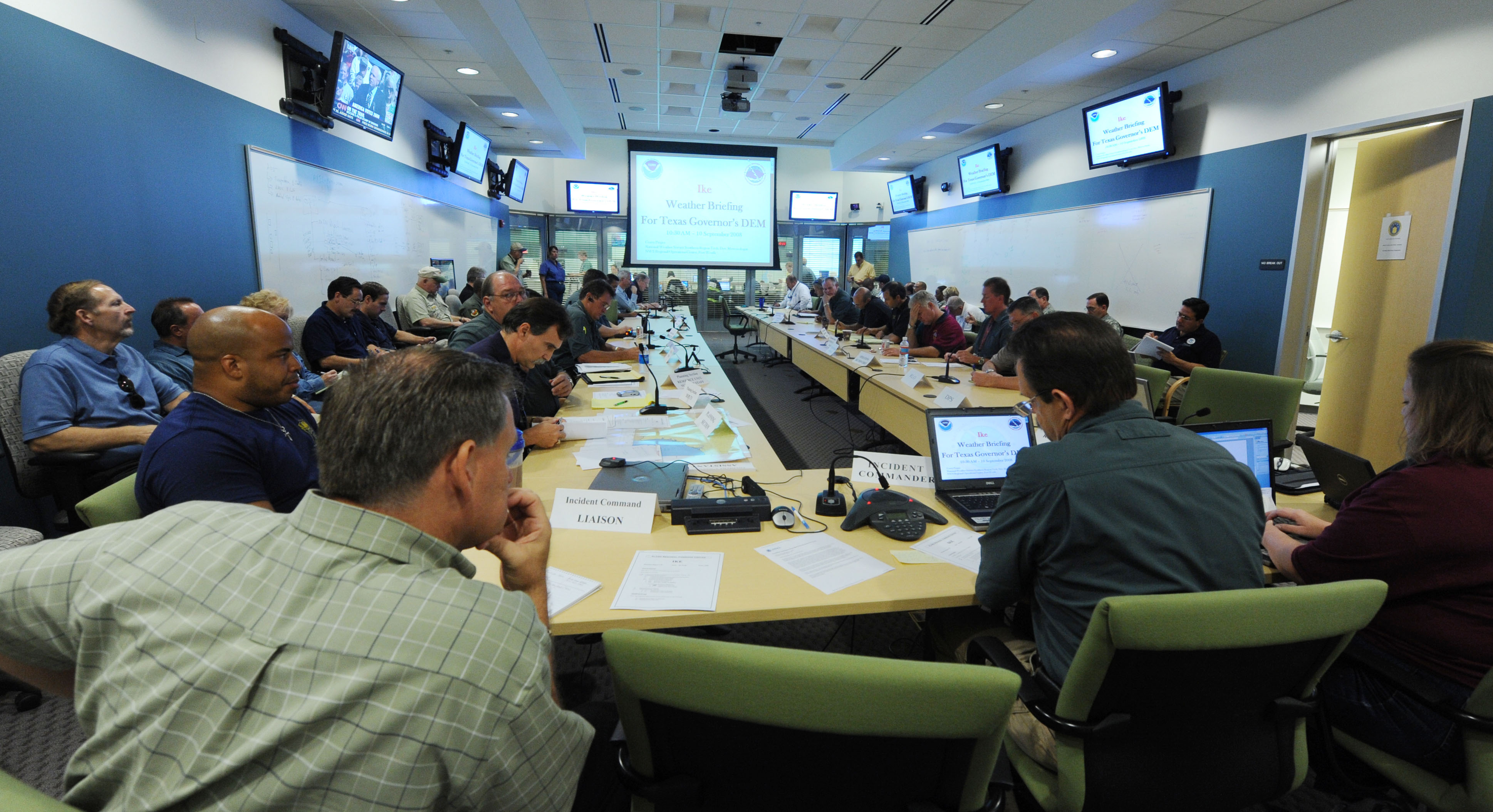 San Antonio, TX, September 10, 2008 -- Local, state and federal officials get a briefing via a conference call for the situational update at the City of San Antonio and Bexar County Emergency Operations Center. Hurricane Ike is expected to make landfall somewhere on the eastern coast of Texas. Jocelyn Augustino/FEMA